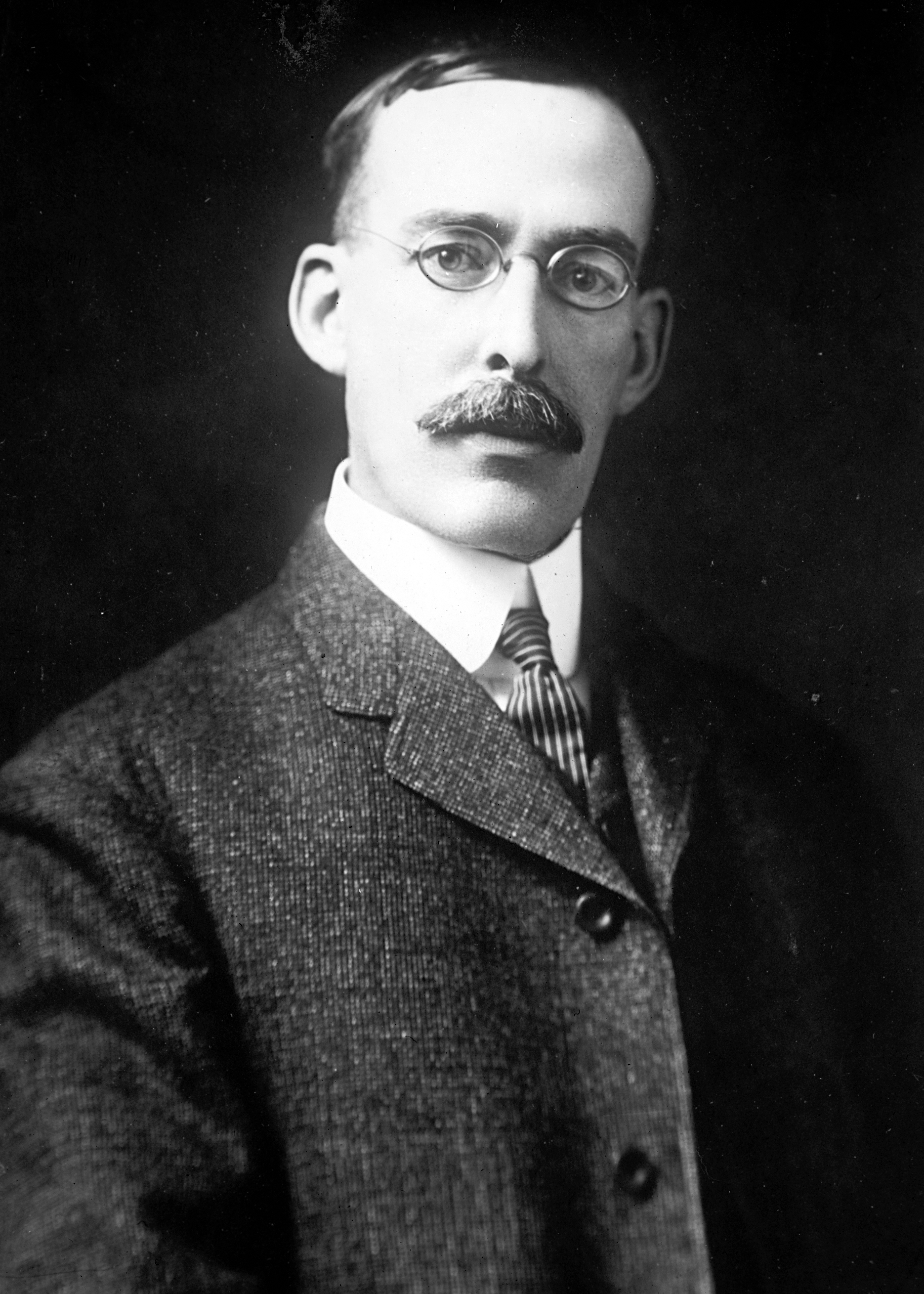 Harry H. Pratt, US Representative from New York